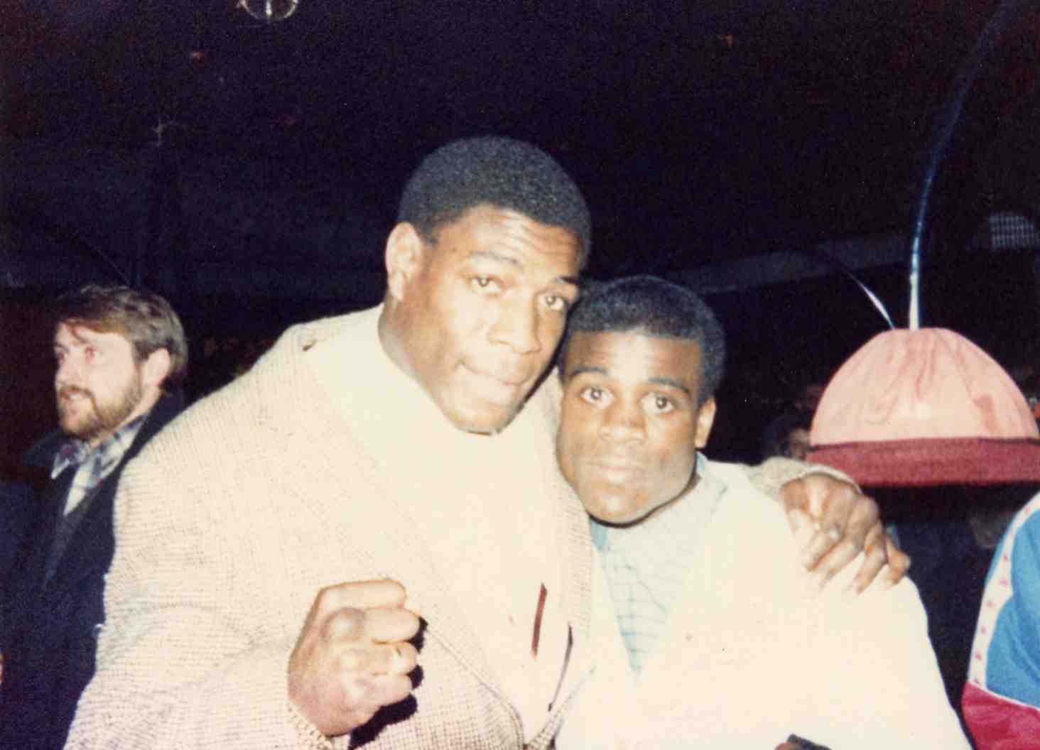 Photo of Frank Bruno and Errol Christie